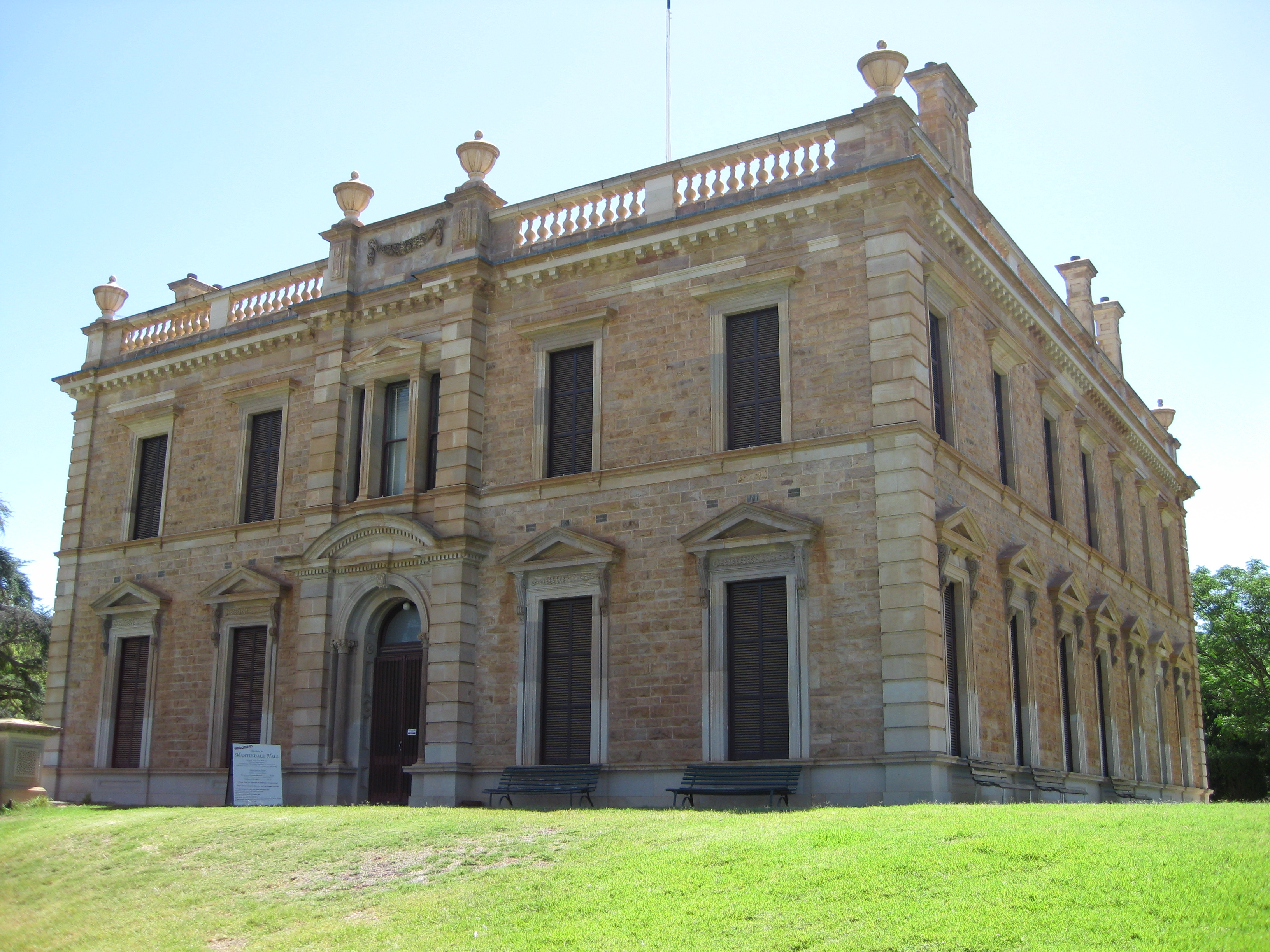 Martindale Hall, near Mintaro in the Clare Valley region of South Australia